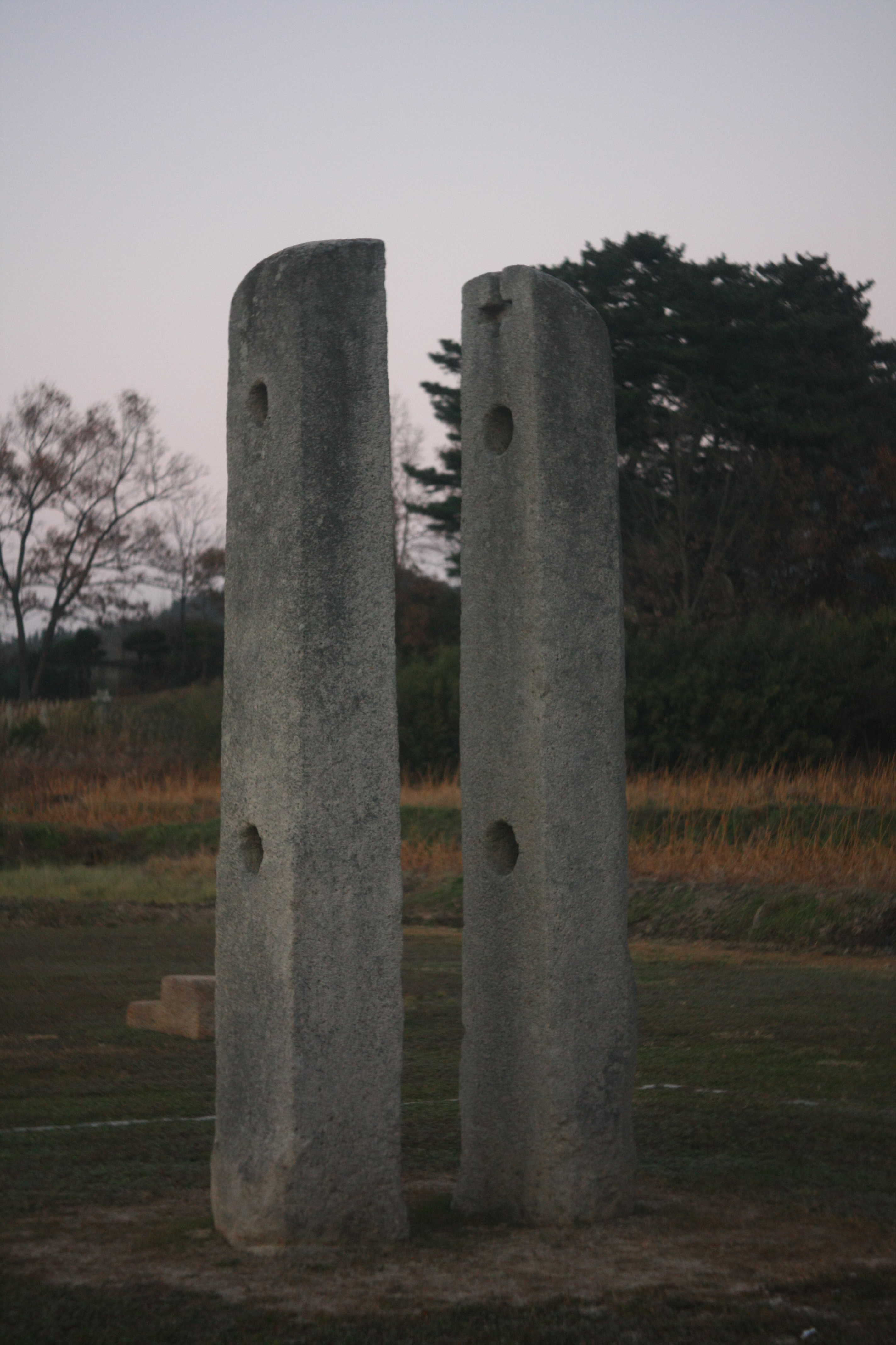 Dangganjiju at Namgansa Temple Site in Gyeongju, South Korea